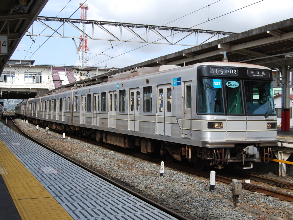 Tokyo Metro Hibiya Line 03 series EMU set 13 at Tobu Dobutsu-koen Station on the Tobu Skytree Line